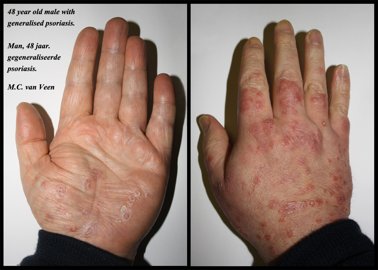 My own hands, over 20 years with psoriasis now.